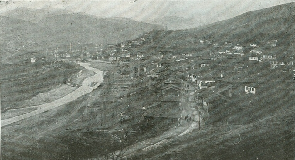 Kriva Palanka in the begining of XX c.